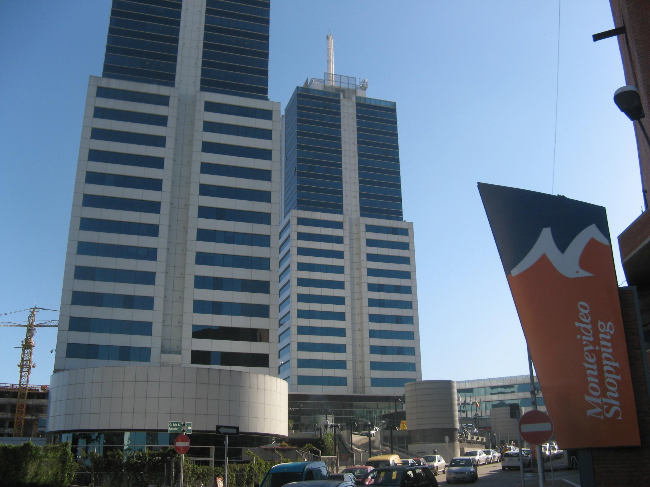 World Trade Center de Montevideo, Uruguay. To the right: an entrance sign to Montevideo Shopping.